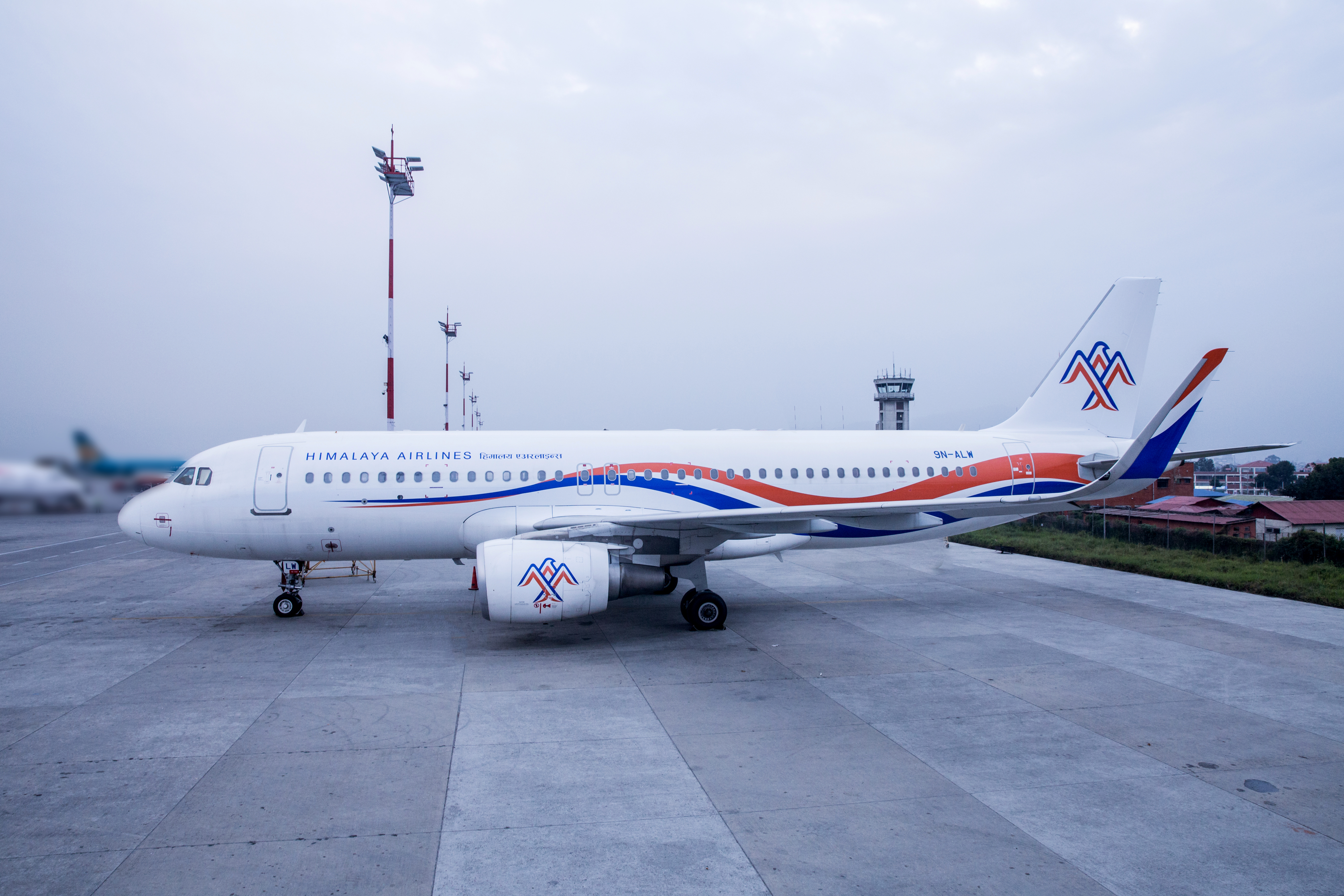 A Himalaya Airlines Airbus A320 -214 at Tribhuwan International Airport